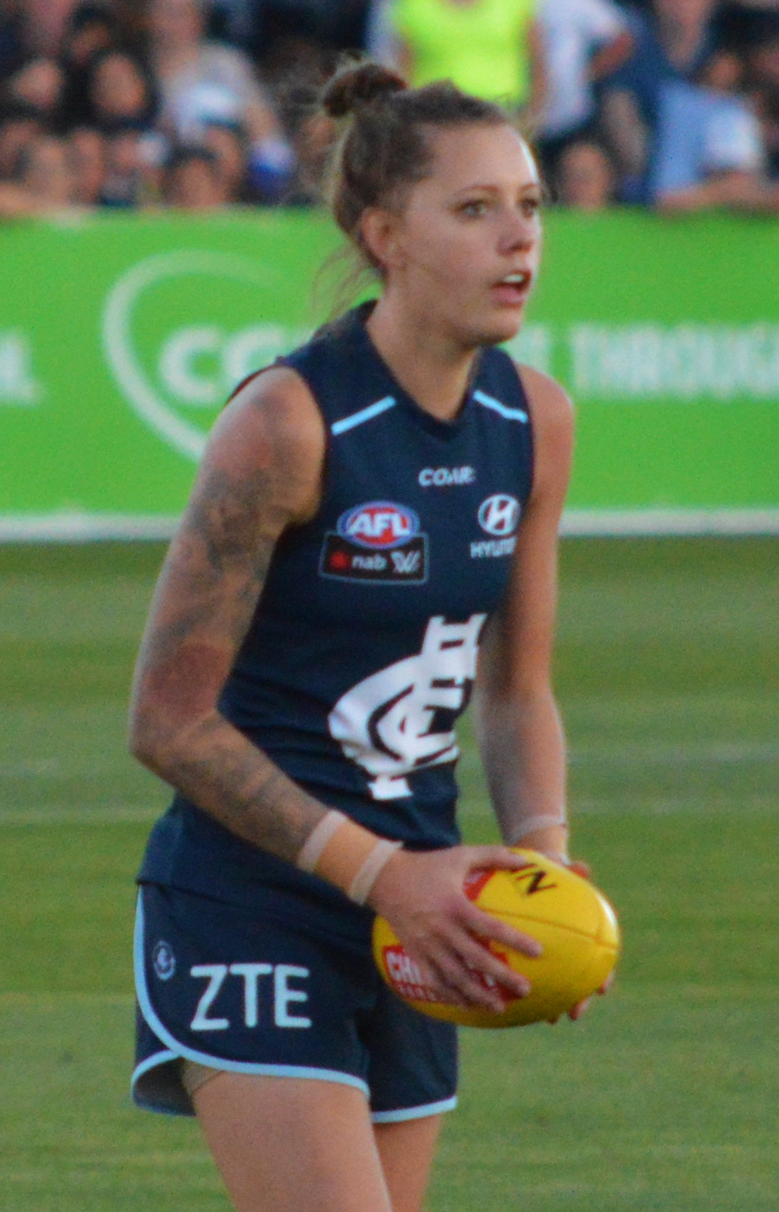 Bianca Jakobsson during the inaugural AFL Women's match in February 2017